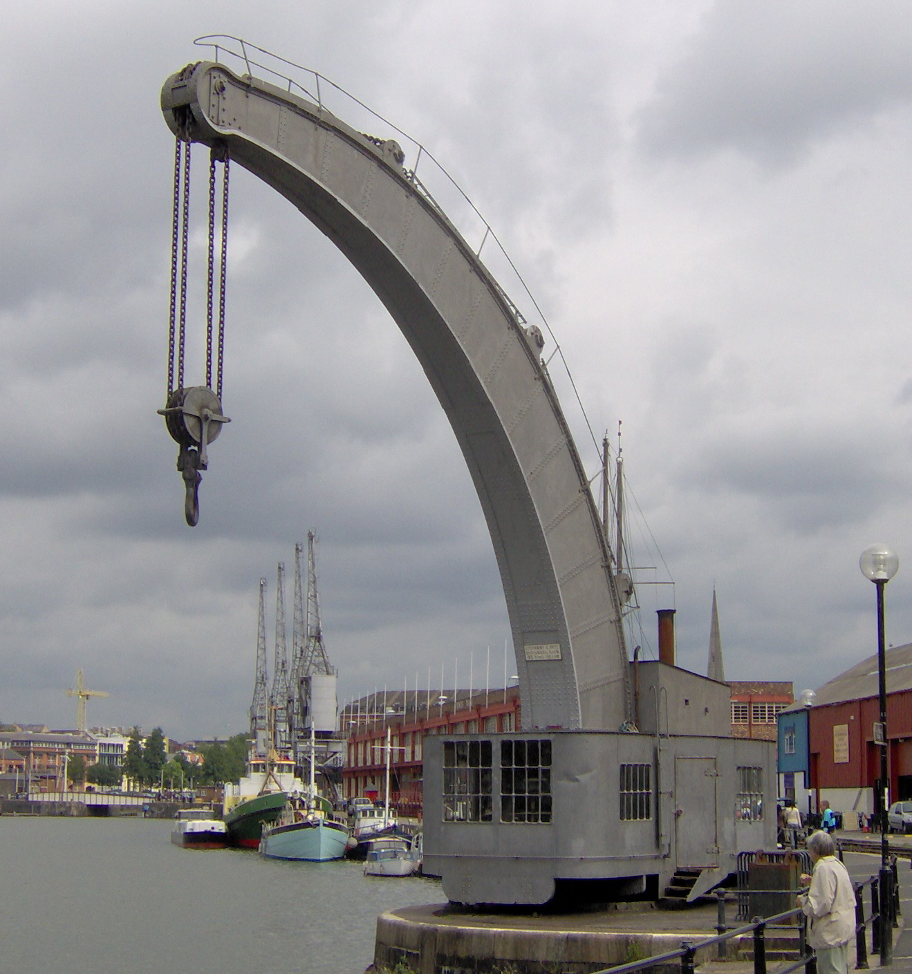 Fairbairn steam crane outside Bristol Harbour Railway and Industrial Museum. Although a Fairbairn design, the crane was built by Stothert & Pitt of Bath and carries their maker's plate. The crane is still operational and is regularly steamed.